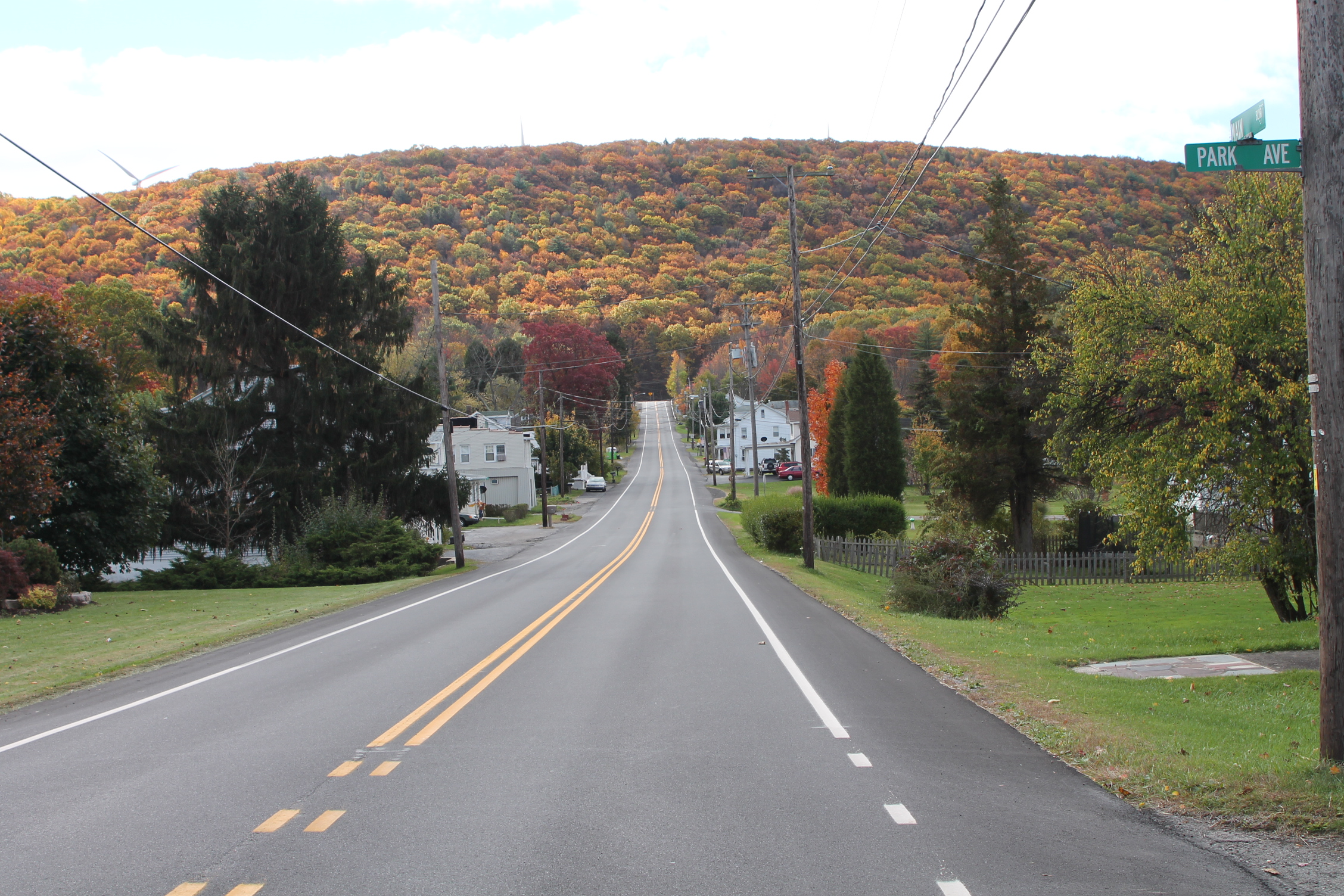 Pennsylvania Route 339/924 in Brandonville, Pennsylvania